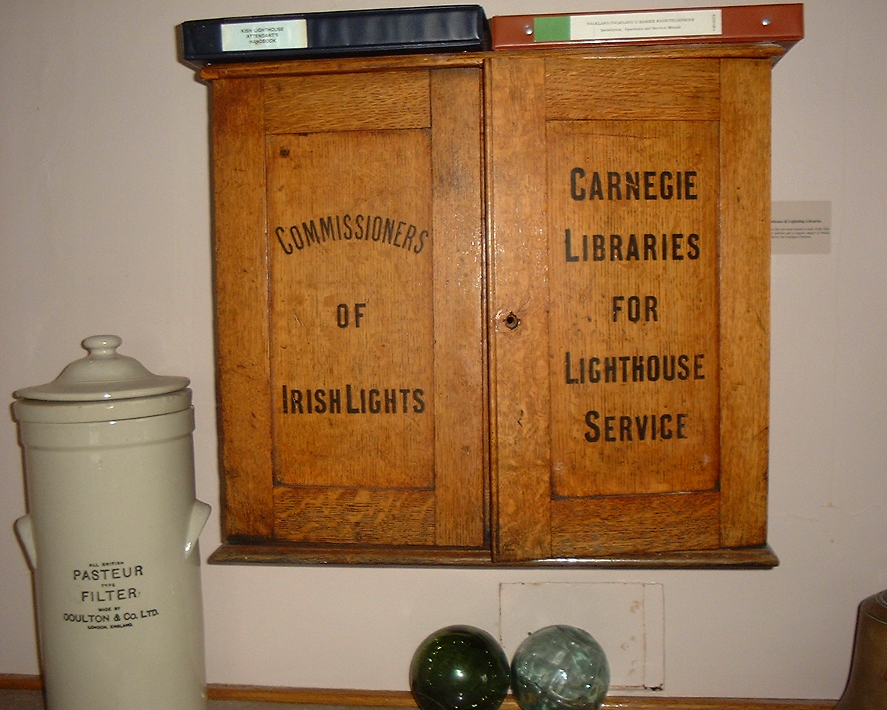 Carnegie Library Lighthouse Service